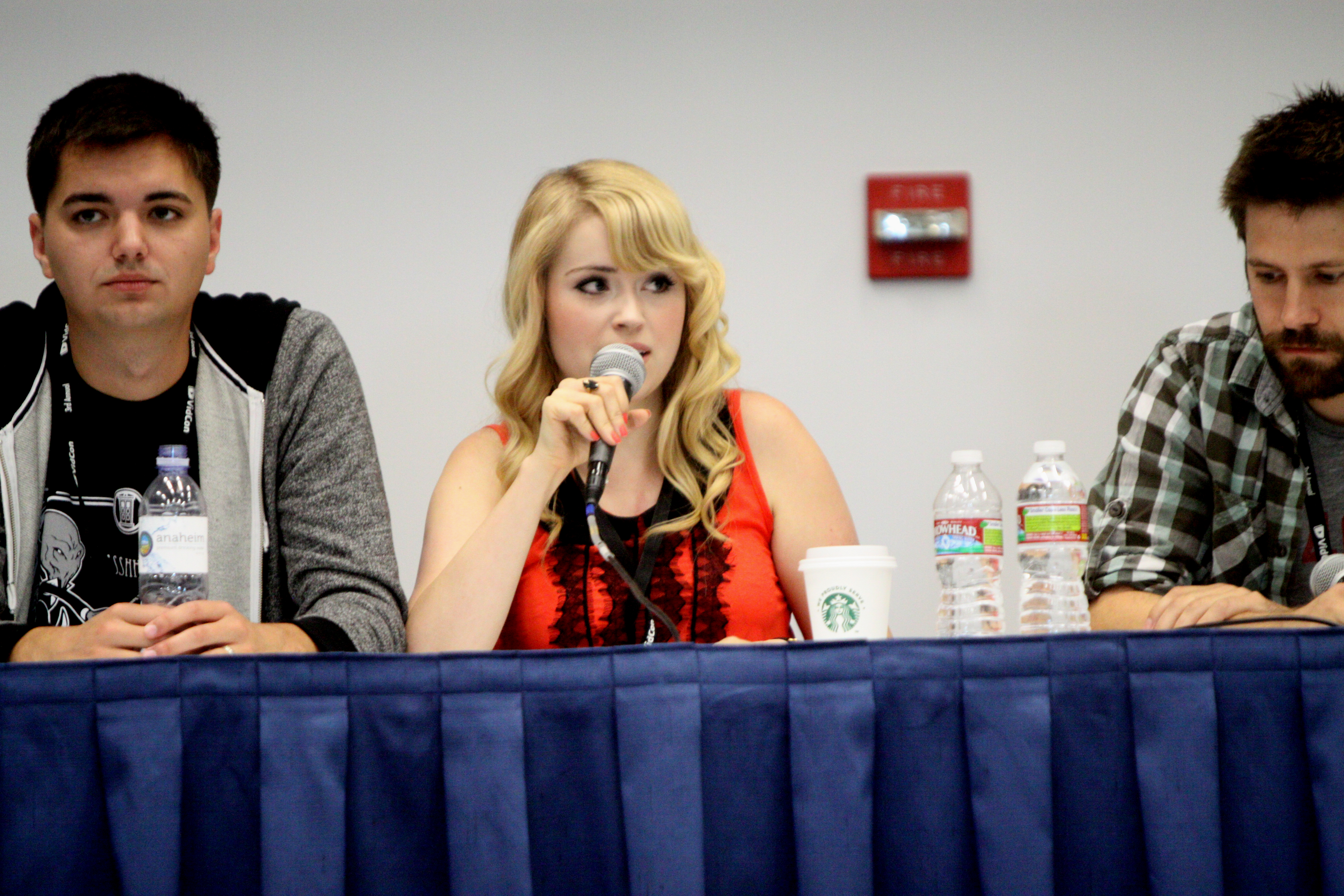 Elliott Morgan, Lee Newton, Joe Bereta (left to right), at VidCon 2012.